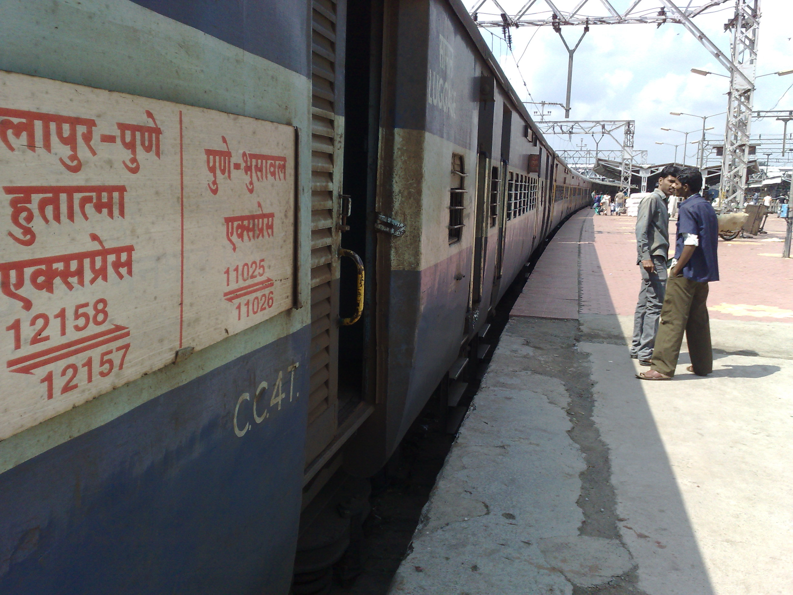 Hutatma Express at Pune Junction